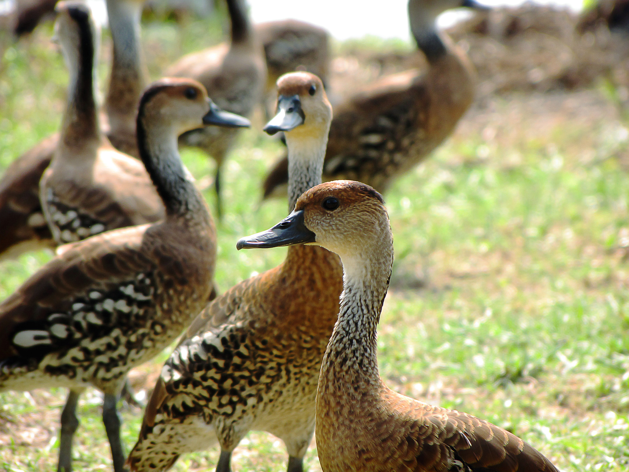 A group of West Indian whistling ducks in the Royal Palm Preserve, outside of Negril, Jamaica, West Indies.